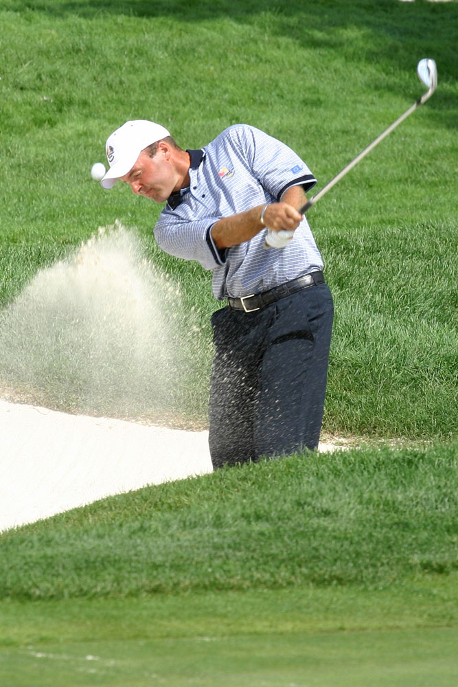 Frenchman Thomas Levet during a practice round prior to the 2004 Ryder Cup at the Oakland Hills Country Club in Bloomfield Hills, Michigan.